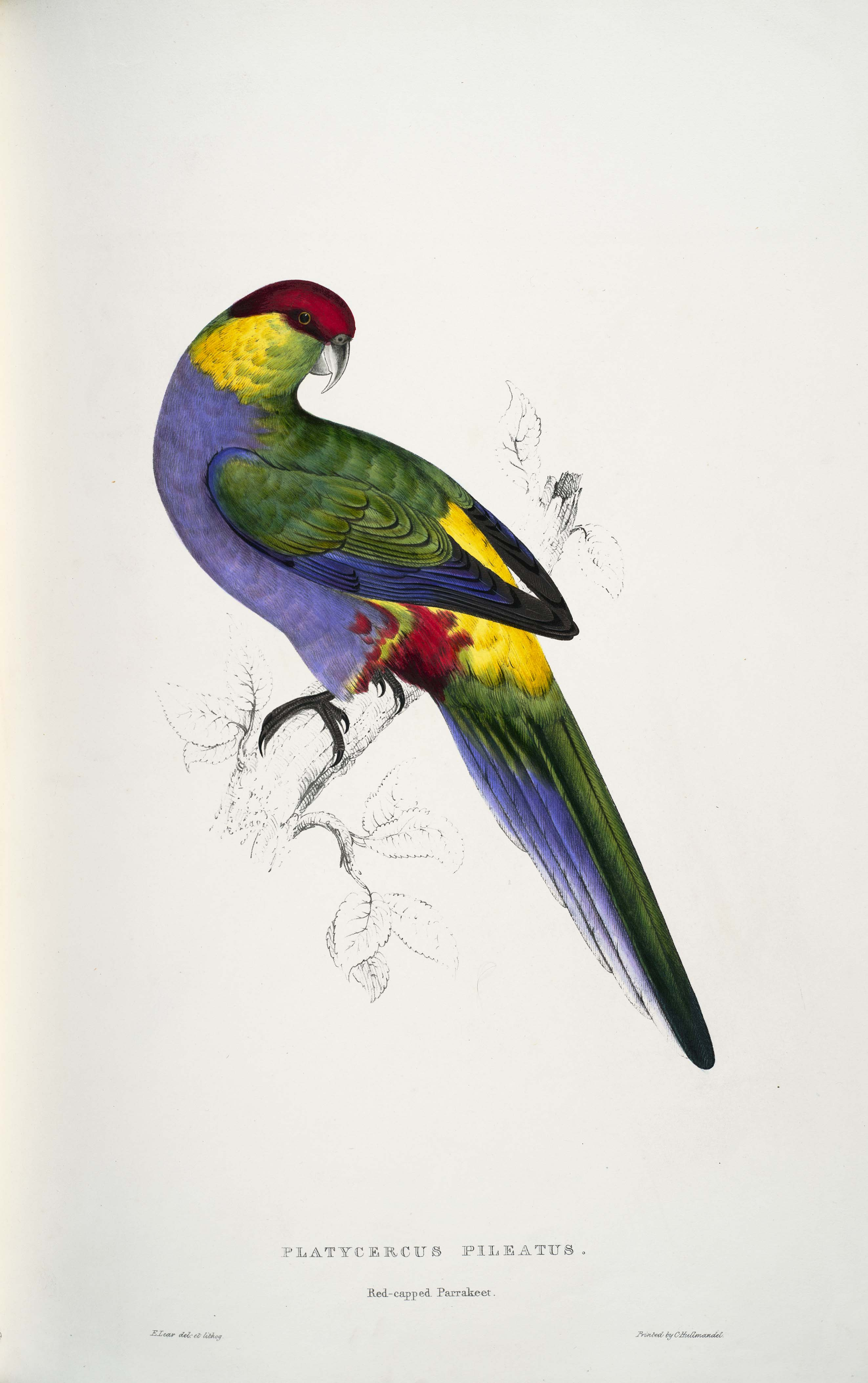 A painting of male Red-capped Parrot, also called the Pileated Parakeet, (originally captioned "Platycercus pileatus. Red-capped Parrakeet.") by Edward Lear 1812-1888.